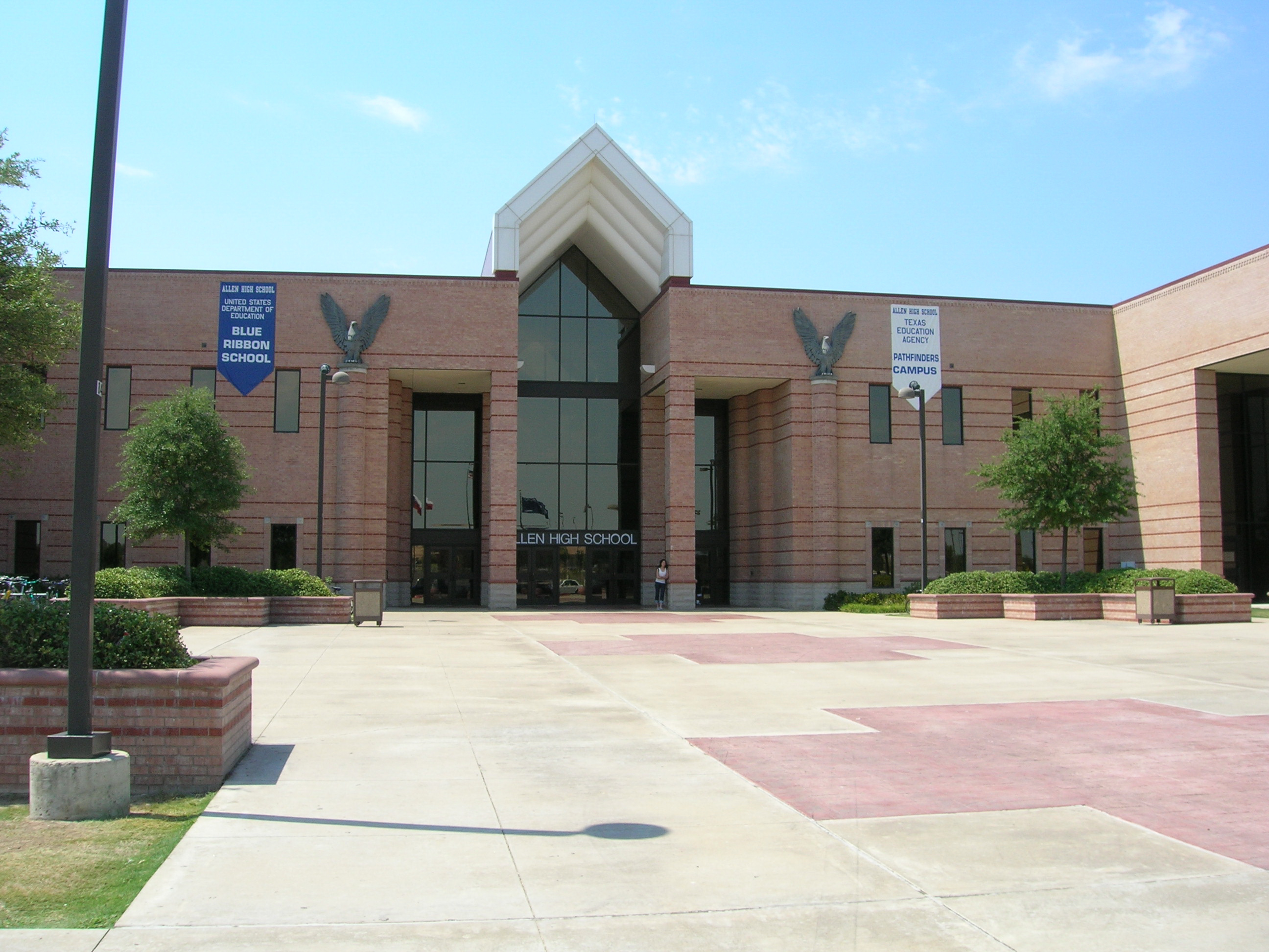 Exterior of Allen High School in Texas